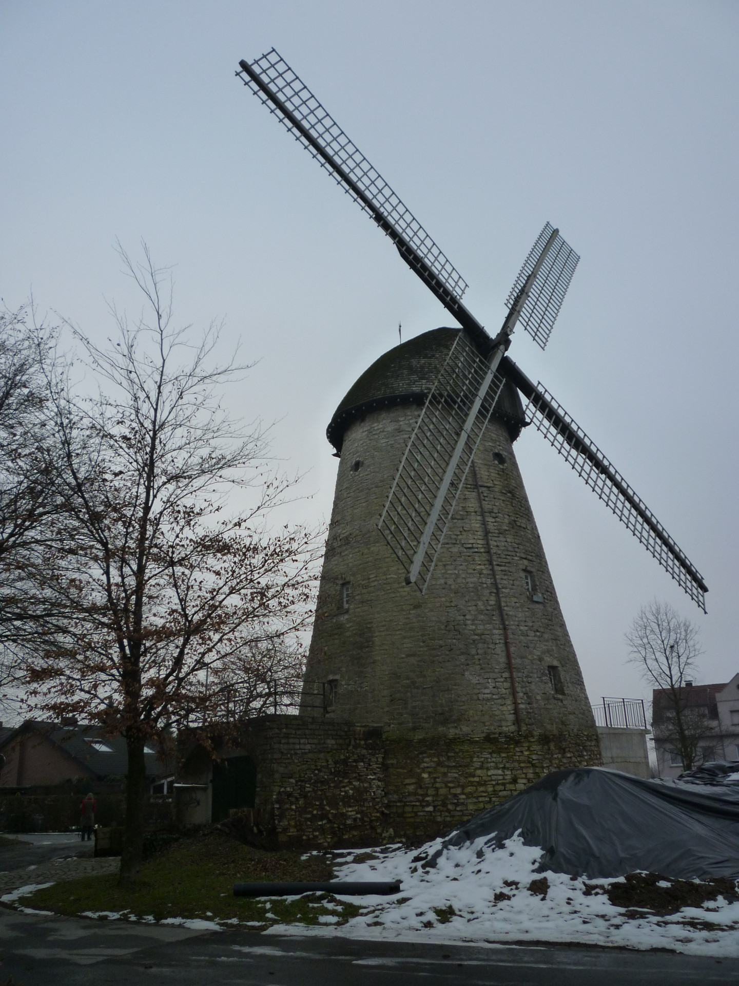 Windmill in Ennigerloh during renovation in winter 2009/10